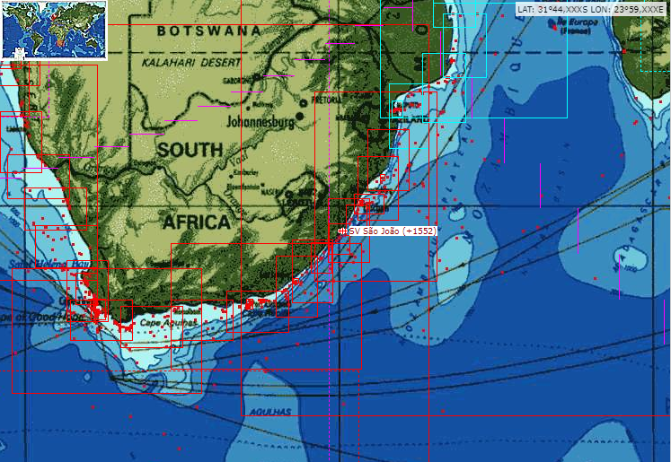 Screenshot of the geographical region of the good galleon São João wreckage. Sunk during a storm in 1552